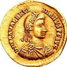 Valentinianus III. 425-455 AD. AV Solidus (4.39 gm, 6h). Ravenna mint. Struck 426-430 AD. Rosette-diademed, draped, and cuirassed bust right Valentinian standing facing, holding long cross and Victory on globe, foot on human-headed serpent; R-V/COMOB. RIC X 2010; Depeyrot 17/1. Good VF. From the Tony Hardy Collection.